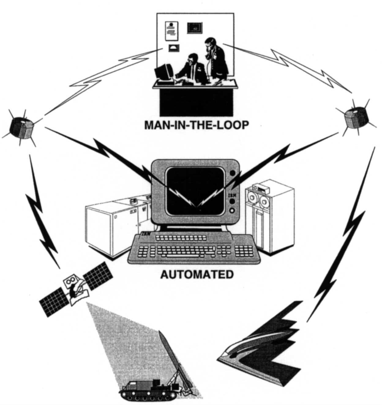 Automated Versus Man-in-the-Loop Decision Making. War with a future peer will present challenges of a different nature from those posed by an MRC scenario today. Both sides will use multiple sensors to detect large force movements and relay this information in near real time to stealthy aerospace weapon systems. Possibly operating from a sanctuary, these stealthy aerospace weapons will likely penetrate aerospace defenses in significant numbers. Once in the target area, they will strike with great accuracy. Most importantly, these weapons will be employed and controlled in an innovative fashion. Both sides will employ emerging technologies in ways that maximize their unique capabilities. Defense forces will face a combination of advanced surveillance and communications, innovative command and control, stealthy attack systems, precision munitions, nuclear weapons, and robust resources in the hands of an innovative attacker.